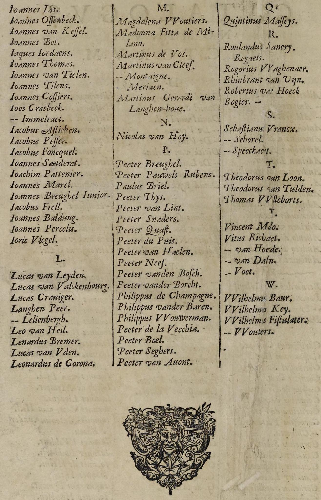 1673 copy of Theatrum Pictorium in possession of the Getty Research Institute, which has a bookplate of the book collector Sir Edward Marwood Elton, Baronet